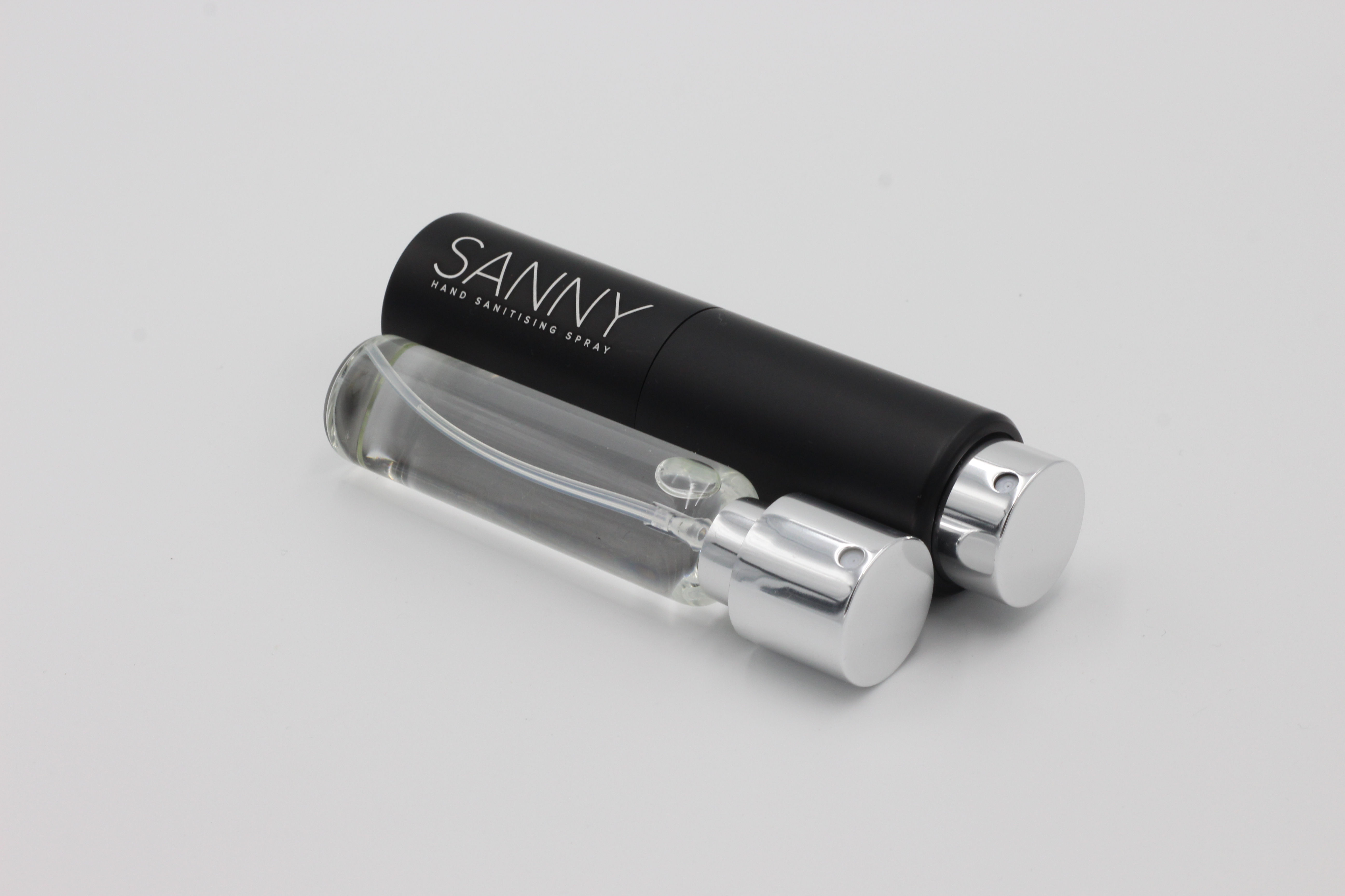 SANNY Black hand sanitising spray with refill